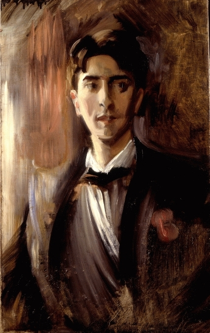 Portrait of Jean Cocteau (1889 - 1963).